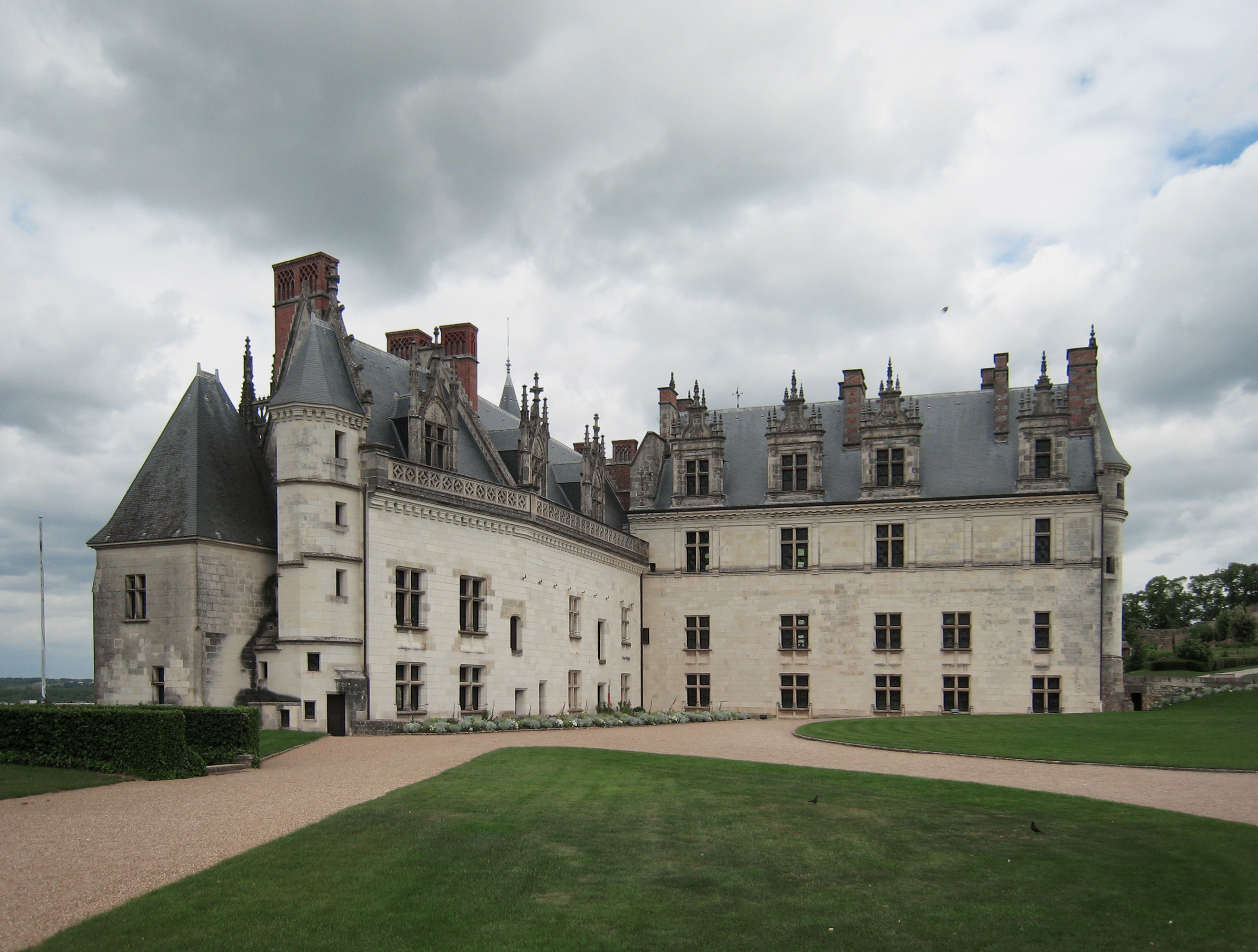 Château d'Amboise, view from the court yard